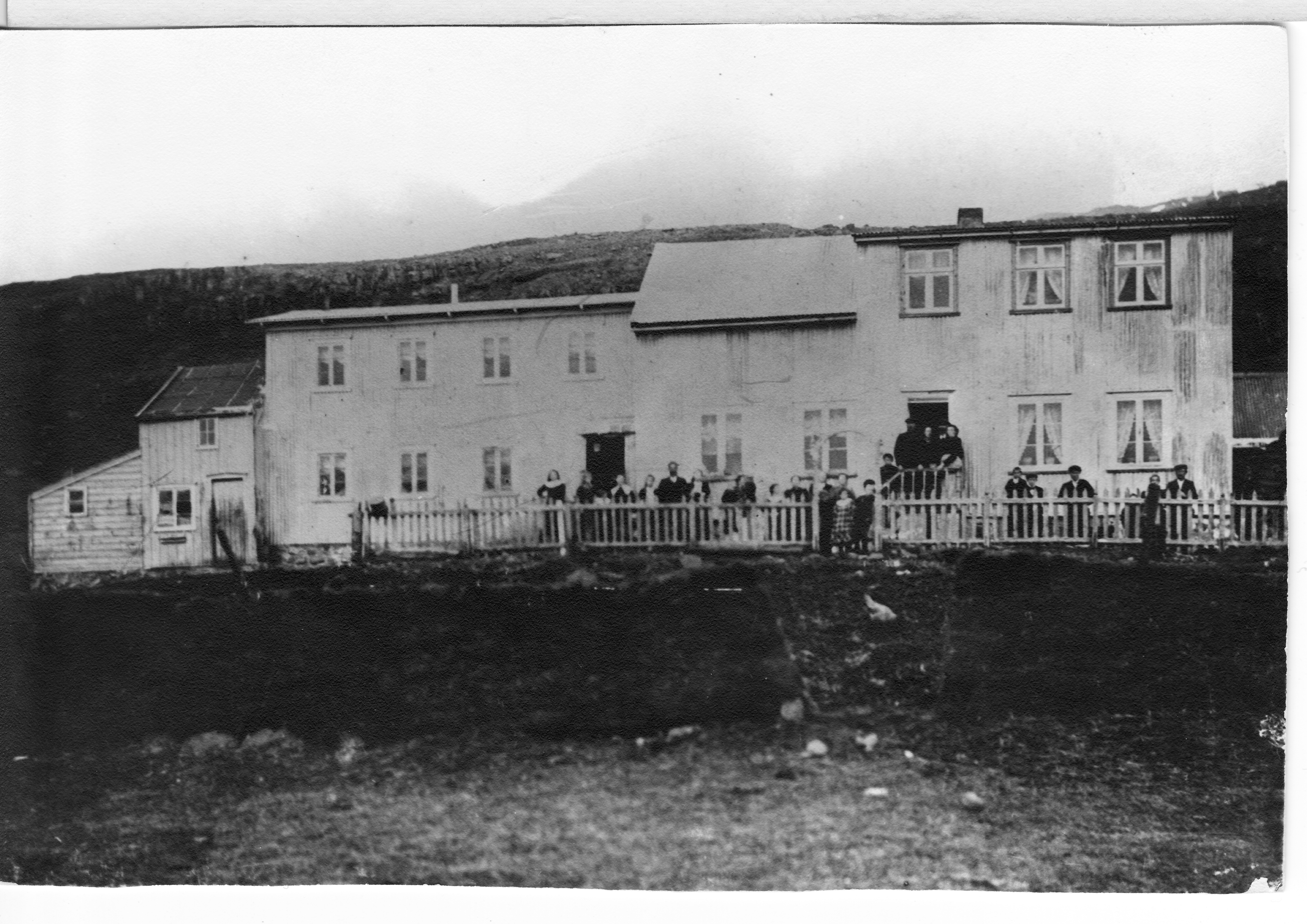 Karlsskáli við Reyðarfjörð